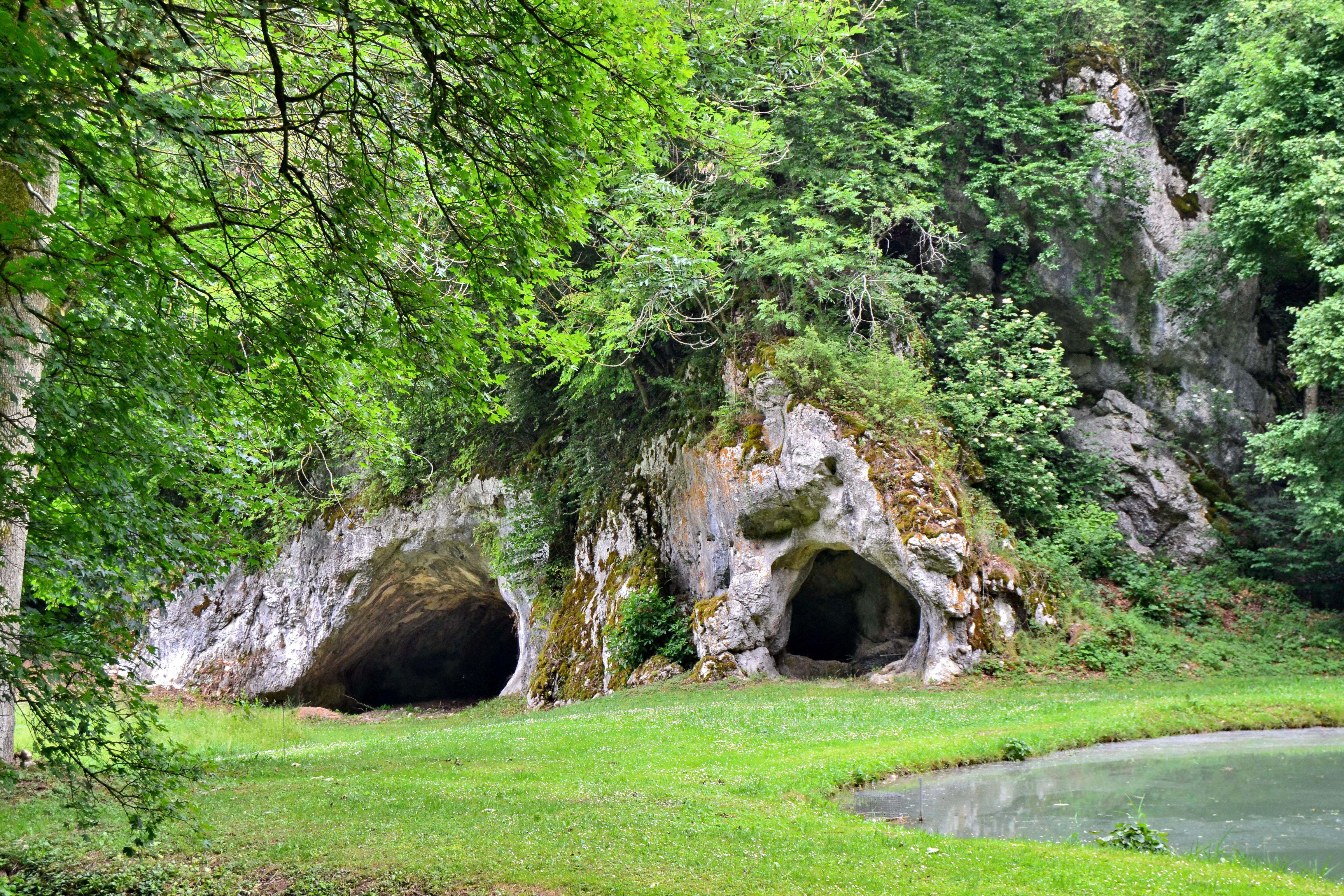 "Mannlefelsen" caves (prehistoric caves) in Oberlarg, Alsace, France.